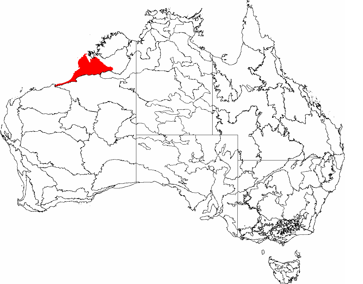 This is a map of the Interim Biogeographic Regionalisation of Australia (IBRA), with state boundaries overlaid. The Dampierland region is shown in red.